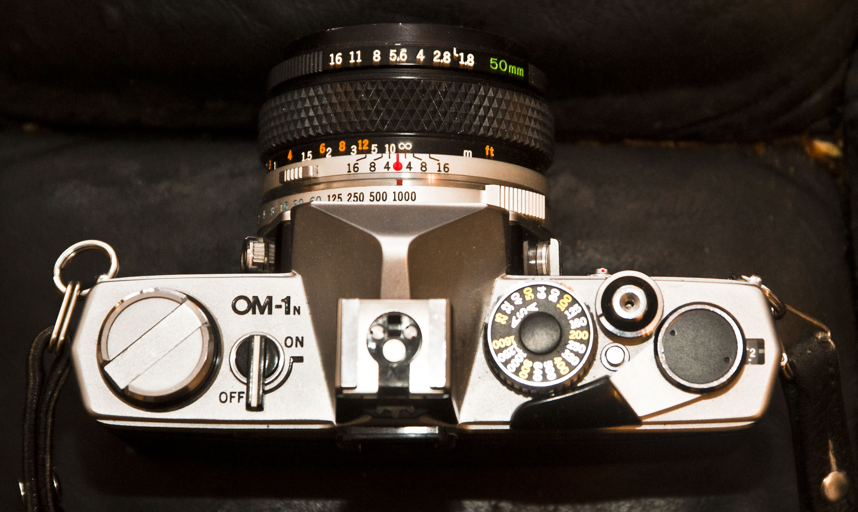 Olympus om1